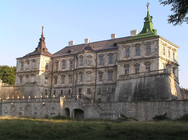 The castle in Podhorce (Ukraine).